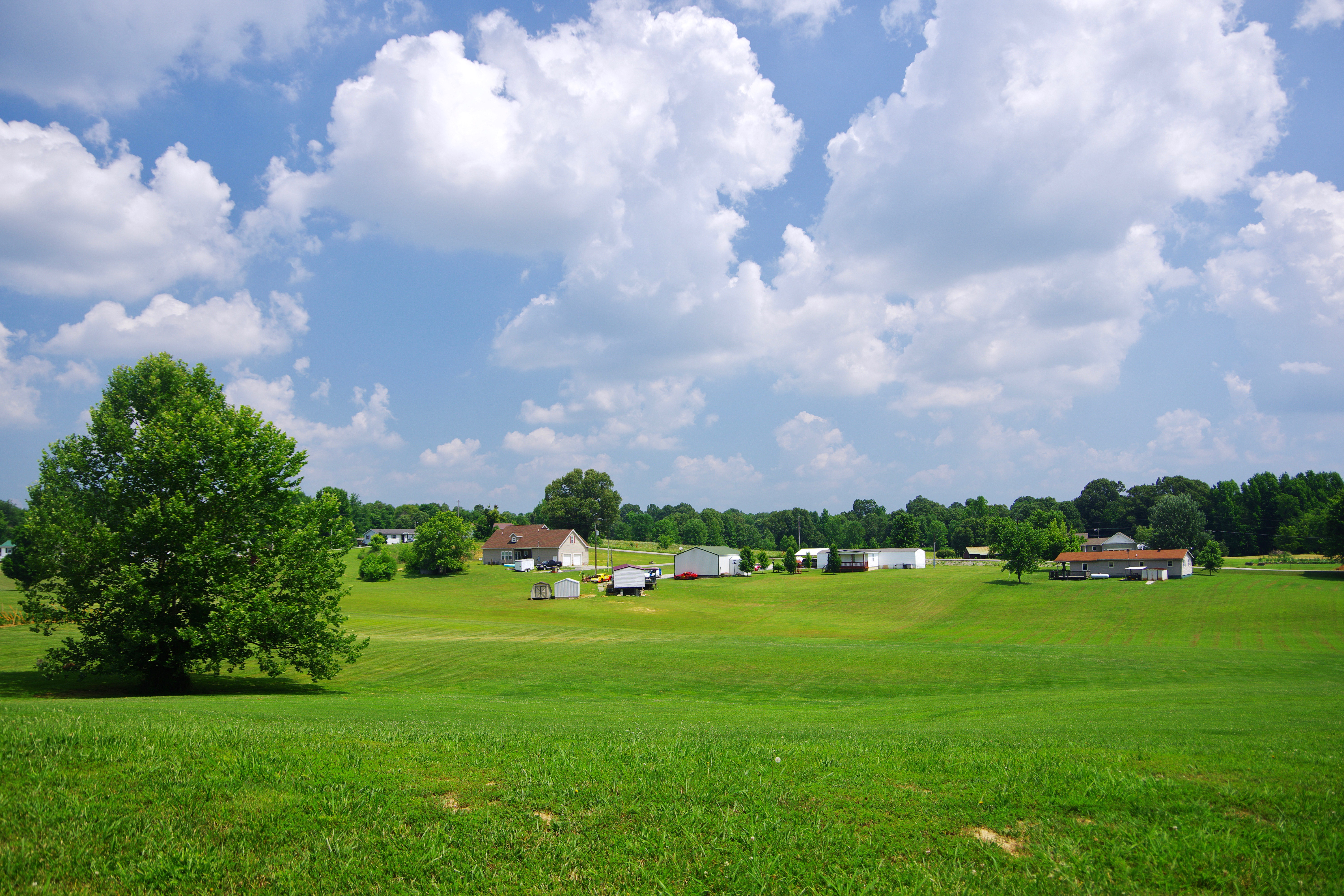 Houses in McHenry, Kentucky, United States, viewed from McHenry Church Road.